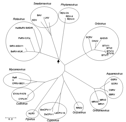 Phylogenetic comparison of the viral polymerase protein sequences of viruses of the family Reoviridae, including seadornaviruses and coltiviruses. Analysis shows coltiviruses and seadornaviruses as 2 distinct phylogenetic groups and that seadornaviruses share a common phylogenetic origin with rotaviruses (arrow). KDV, Kadipiro virus; BAV, Banna virus; LNV, Liao Ning virus; RDV, Rice dwarf virus; RDV-Ch, RDV Chinese isolate; SCRV, St. Croix River virus; AHSV, African horse sickness virus; CHUV, Chuzan virus; BTV, Blue tongue virus; GSRV, Golden shiner reovirus; GCRV, Grass carp reovirus; CSRV, Chum salmon reovirus; SBRV, Striped bass reovirus; MRV, Mammalian orthoreovirus; RRSV, Rice ragged stunt virus; BmCPV, Bombyx mori cytoplasmic polyhedrosis virus; DsCPV, Dendrolimus spectabilis cytoplasmic polyhedrosis virus; LdCPV, Lymantria dispar cytoplasmic polyhedrosis virus; NLRV, Nilaparvata luguens reovirus; CTFV, Colorado tick fever virus; EYAV, Eyach virus; CPRV, Cryphonectria parasitica reovirus; RaRv, Rotavirus A; BoRV, Bovine rotavirus; SiRV, Simian rotavirus; PoRV, Porcine rotavirus; Hu/MuRV, Human/Murine rotavirus.